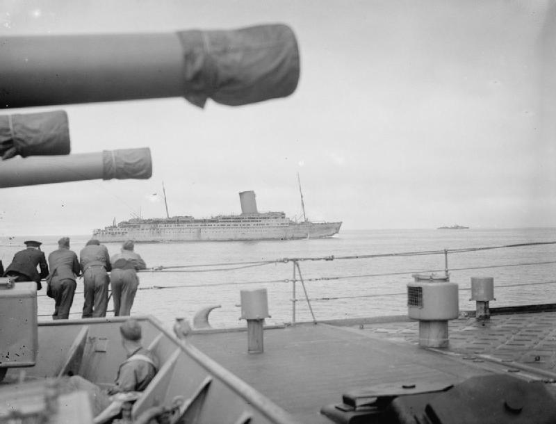 Army Troops Embarked in the Cruiser HMS Manchester. July 1941. Troops on board the ship watching the former French Liner LOUIS PASTEUR passing the ship.